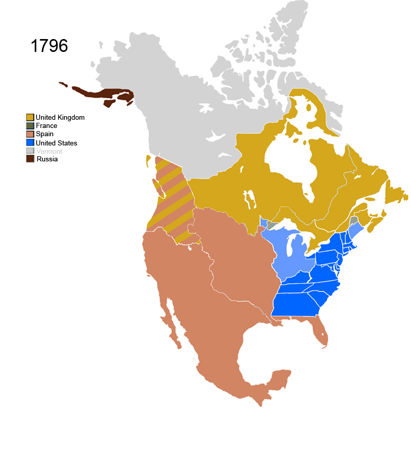 Non Native Political Evolution of North America